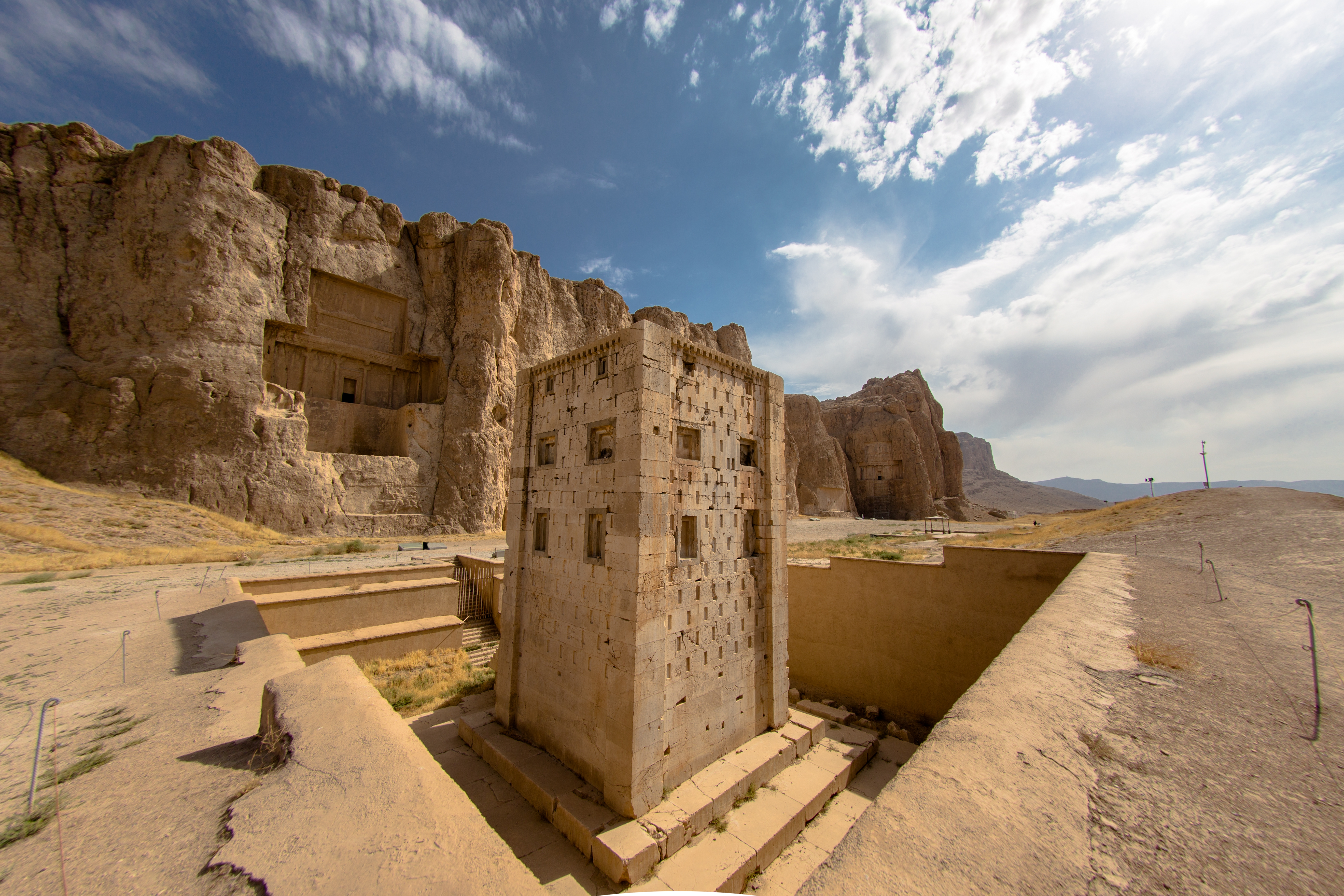 Naqsh-e Rustam is an ancient necropolis located about 12 km northwest of Persepolis, in Fars Province, Iran, with a group of ancient Iranian rock reliefs cut into the cliff, from both the Achaemenid and Sassanid periods.